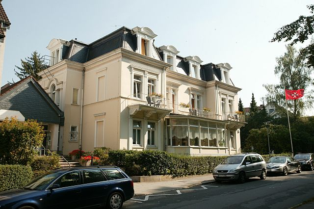 Historic villa of the Klinik am Korso, Bad Oeynhausen